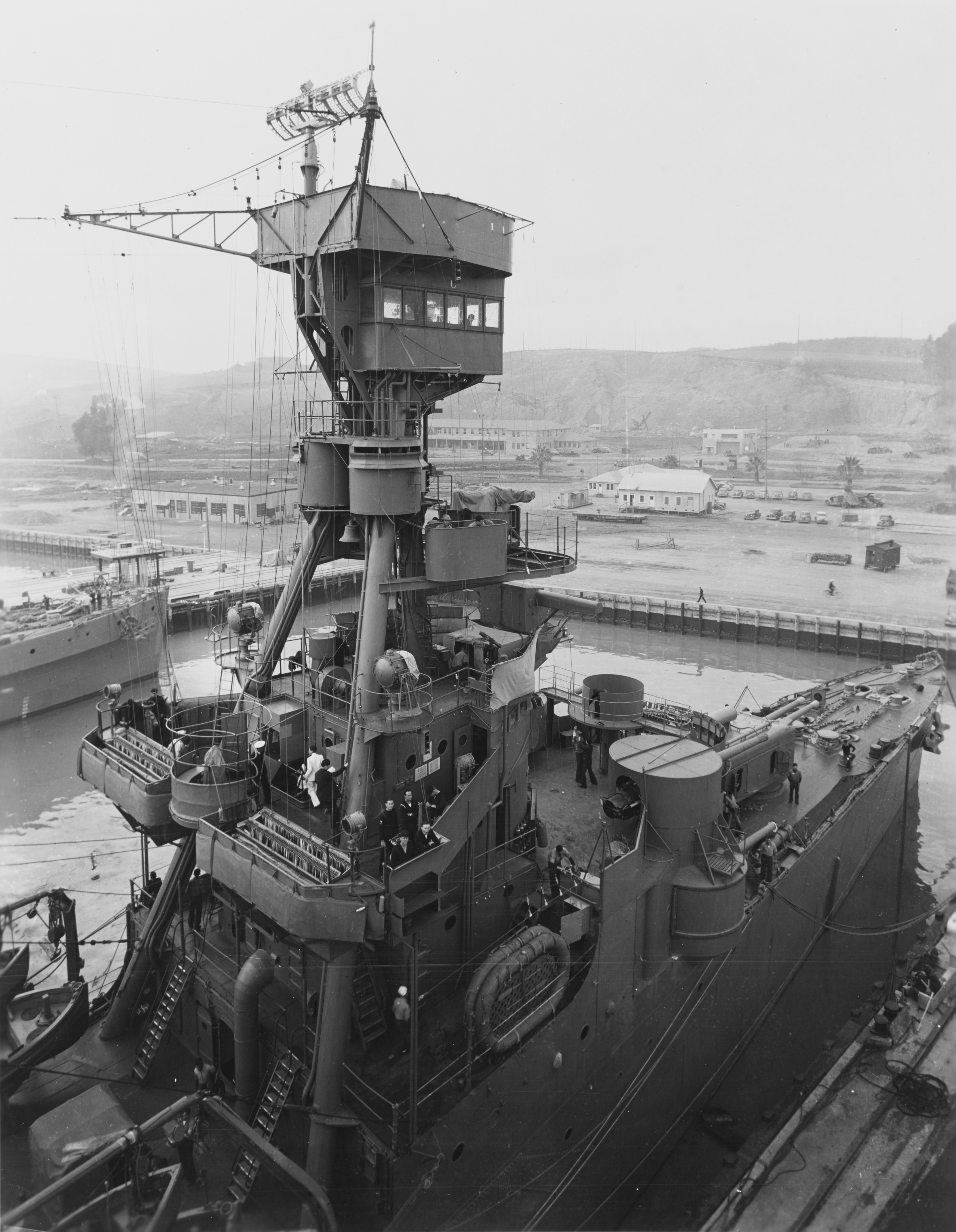 Plan view of the ship's forward superstructure and bow area, taken at the Mare Island Navy Yard, California, 18 February 1942. Note Detroit's tripod foremast, signal flag bins and 6/53 guns in casemate mounts. Photograph from the Bureau of Ships Collection in the U.S. National Archives.